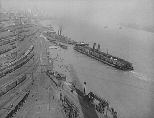 Aerial view of a classification yard and two train ferries in Detroit, Michigan.